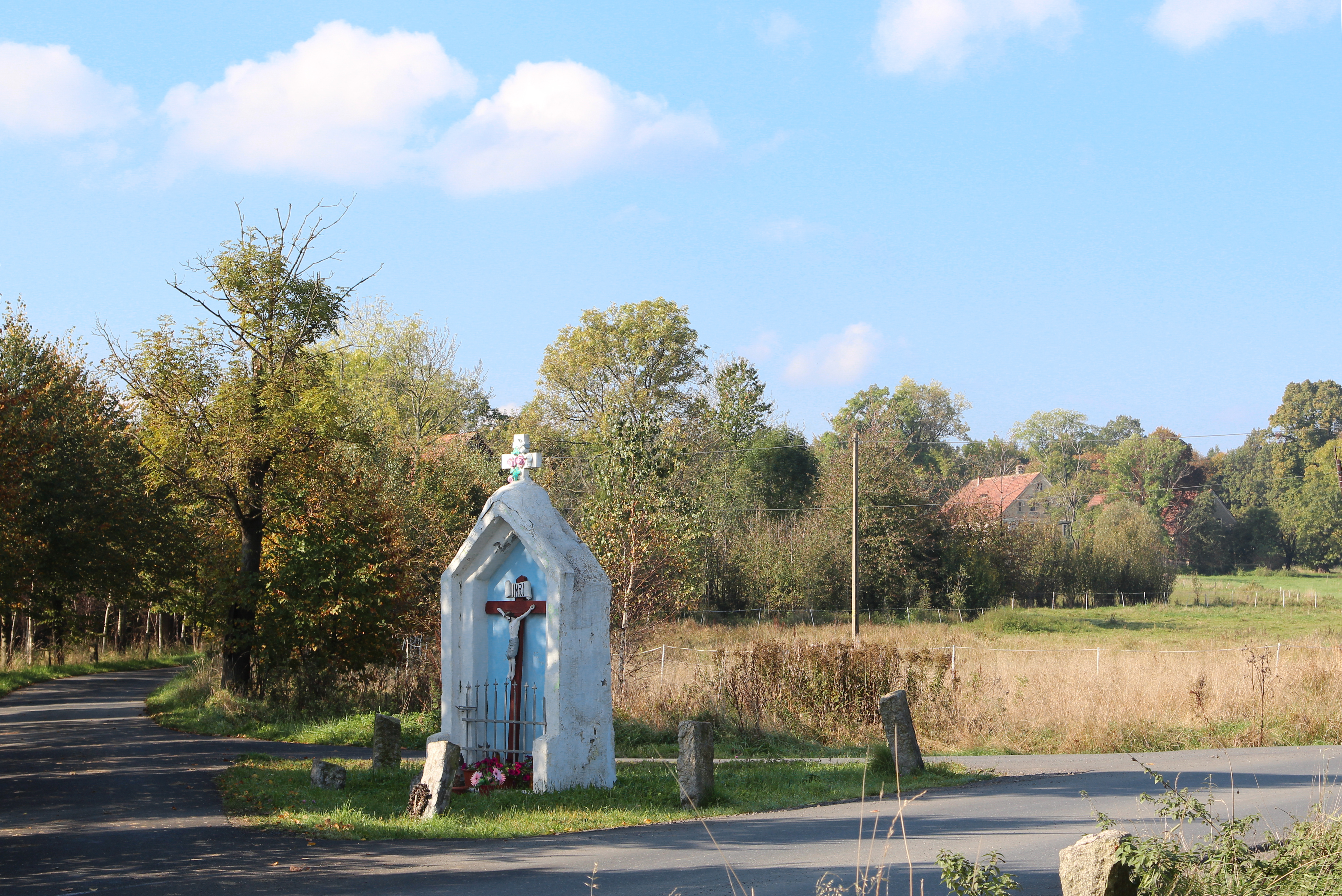 View of Kłopotnica village center